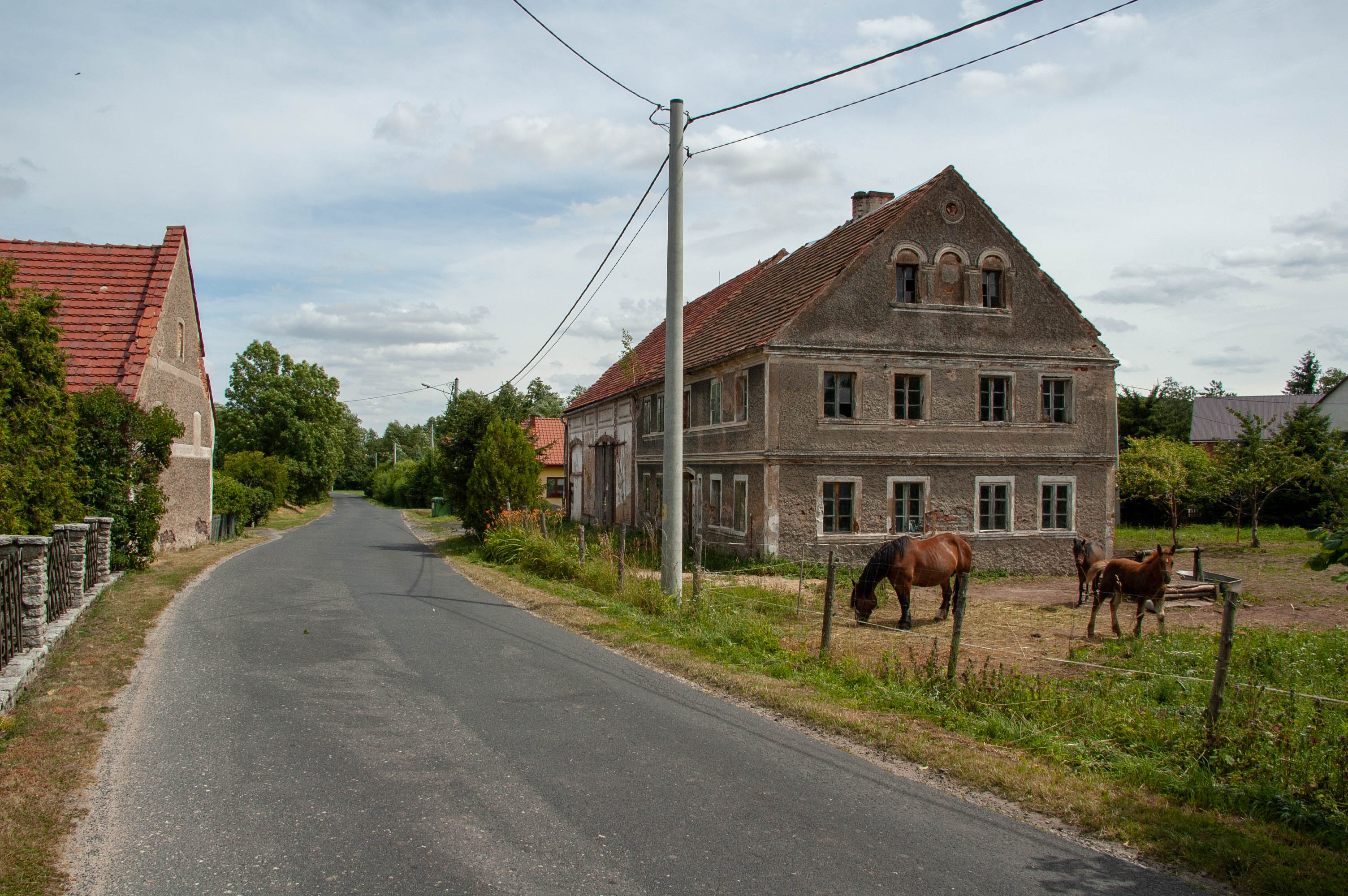 This photograph was created as a part of Wikiexpedition Lower Silesia, a project supported by Wikimedia Poland grant.